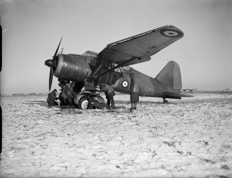 Royal Air Force in France, 1939-1940. Lysander Mark II, L4767 ‘OO-E’, of No. 13 Squadron RAF, on the ground at Mons-en-Chaussee, France, as ground crew investigate a deflated tyre on the port undercarriage. The serial number has been painted over for security purposes.